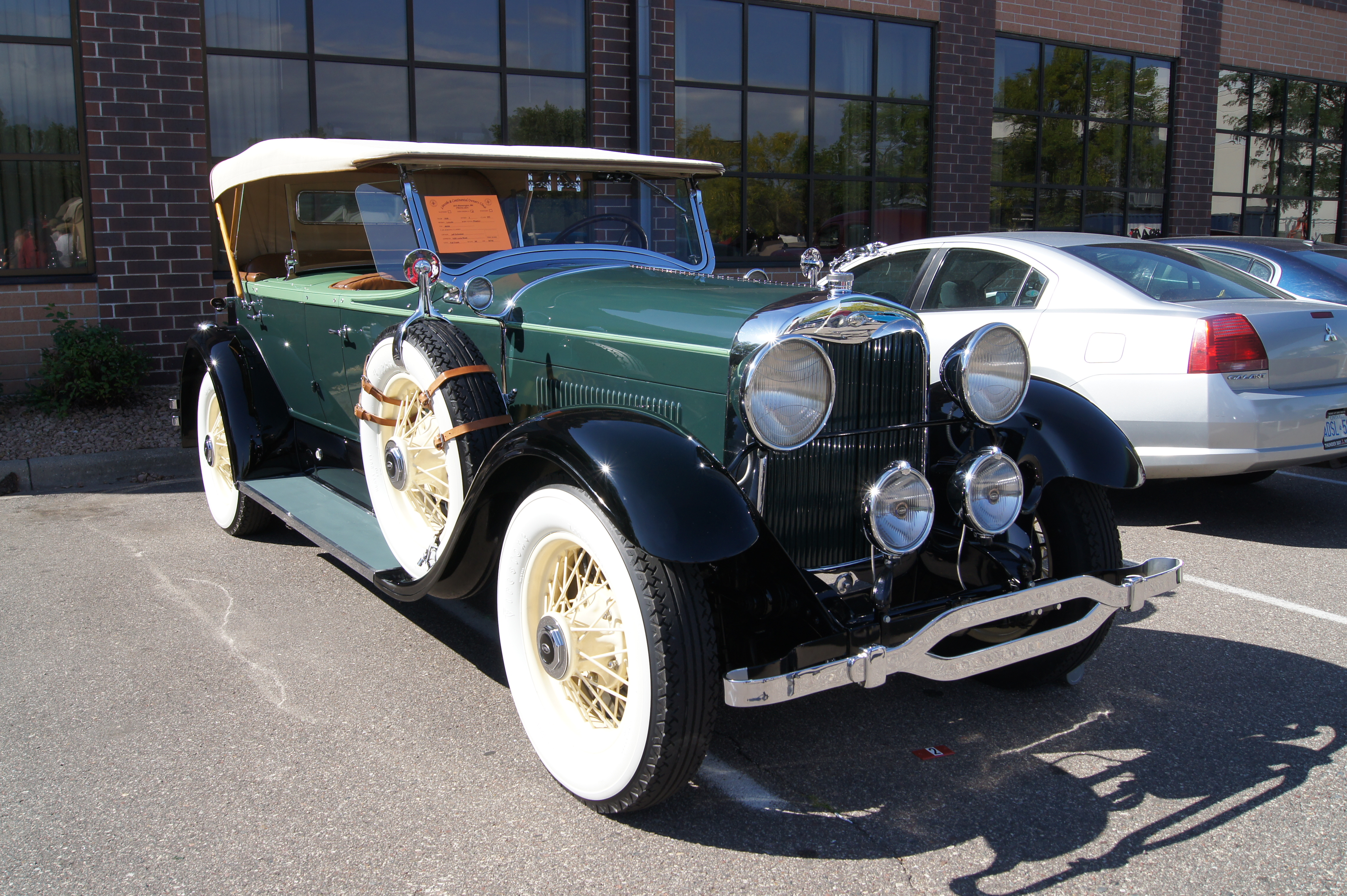 Lincoln & Continental Owners Club 2012 Mid-America National Meet August 15 - 19, 2012 Park Plaza Hotel, 4460 West 78th Street Circle Bloomington, Minnesota Hosted by the North Star Region